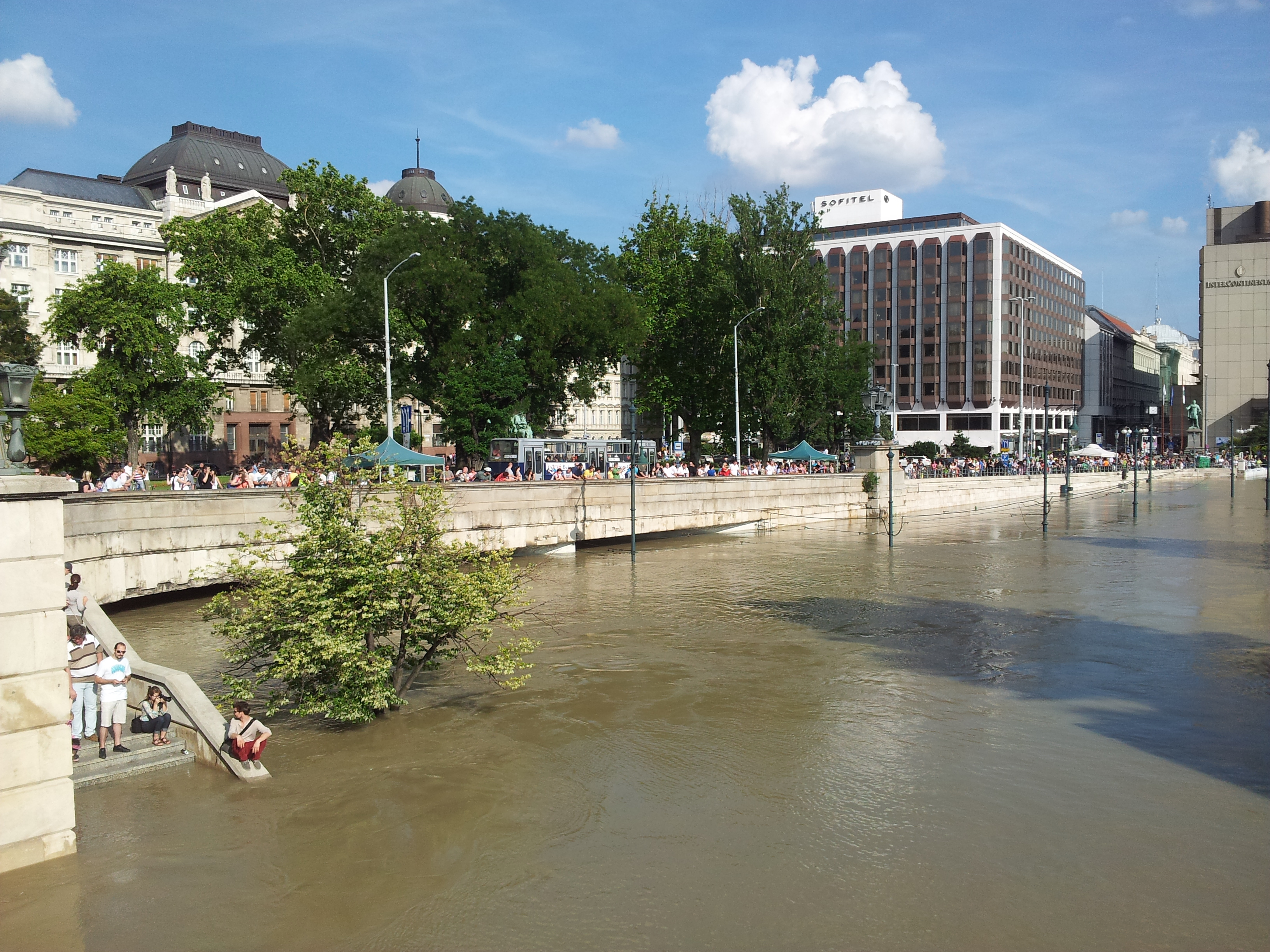 Széchenyi Square at the peak level of the waterlabel QS:Len,"Széchenyi Square at the peak level of the water" label QS:Lhu,"A Széchenyi tér a tetőzéskor"